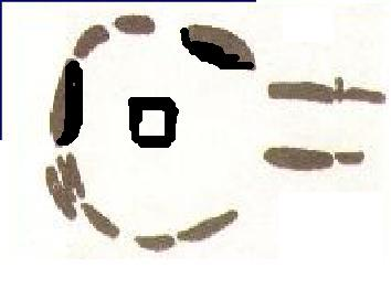 Pata do Cavalo - Plan of Anta 1